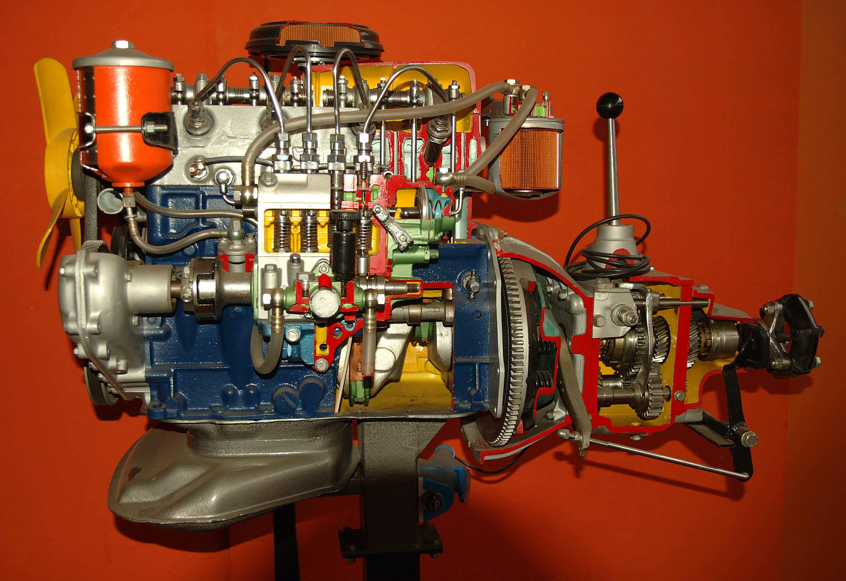 School model of engine.